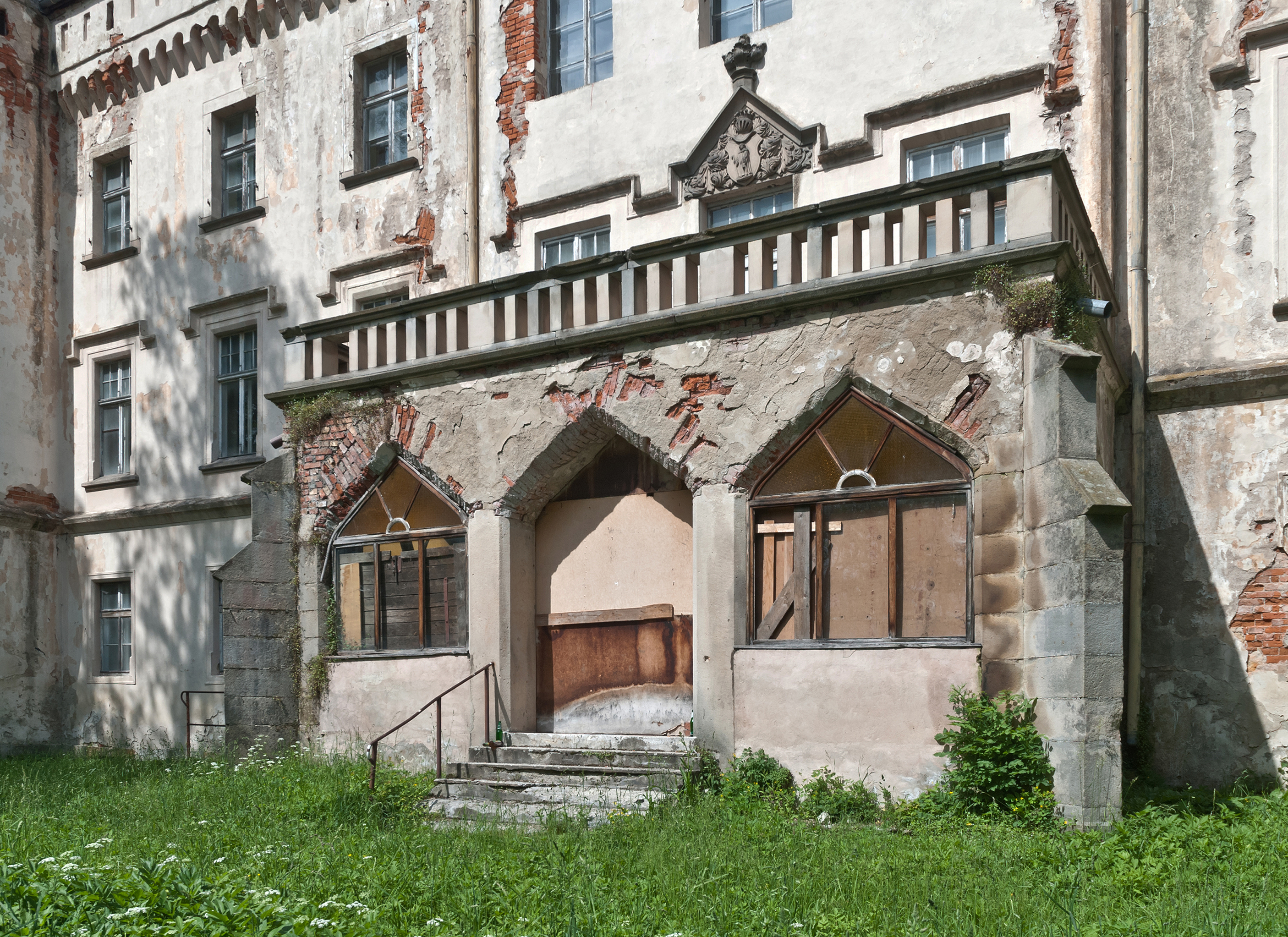 Palace in Szalejów Dolny